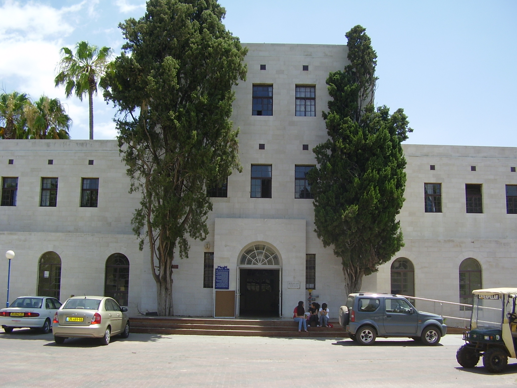 kaduri school in lower galilee